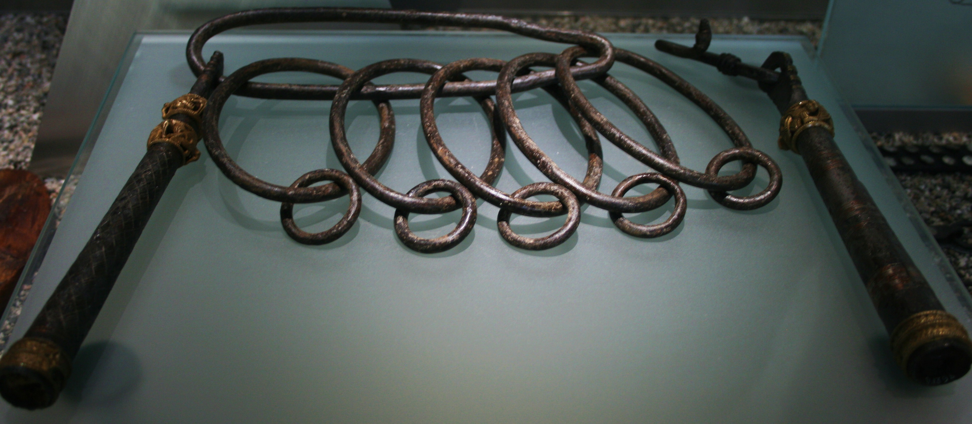 Rattle found in the Oseberg mound grave from 834 CE in the county of Vestfold, Norway. This rattle was likely a religious instrument to call upon the attention of the Gods. It resembles rattles seen with the British Celt God Taranis or Jupiter: Please attribute Saamiblog